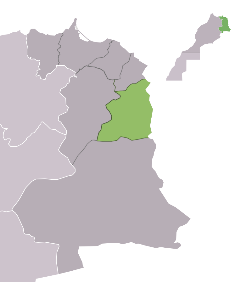 Jerada Province, Oriental Region, Morocco